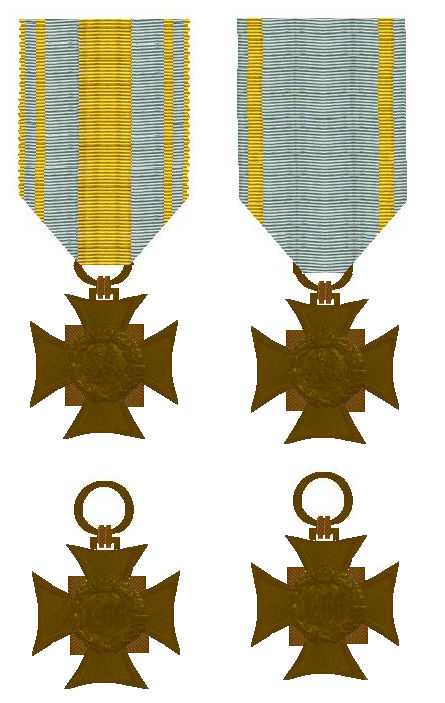 Erinnerungskreuz für 1866